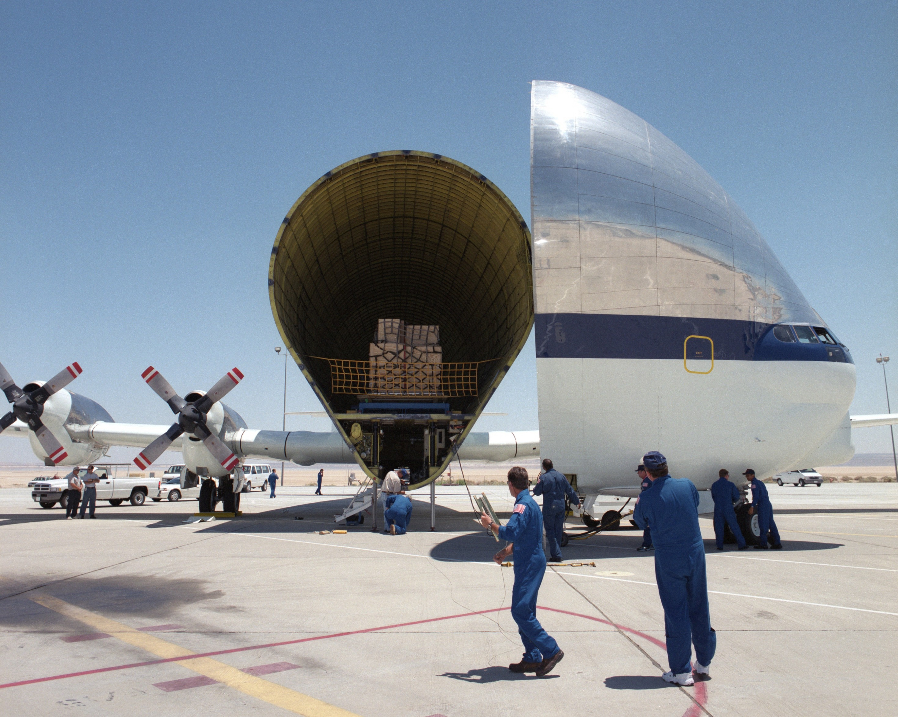 Members of the flight and ground crews prepare to unload equipment from NASA's B377SGT Super Guppy Turbine cargo aircraft on the ramp at NASA's Dryden Flight Research Center at Edwards Air Force Base, Calif. The outsize cargo plane had delivered the latest version of the X-38 flight test vehicle to NASA Dryden when this photo was taken on June 11, 2000.